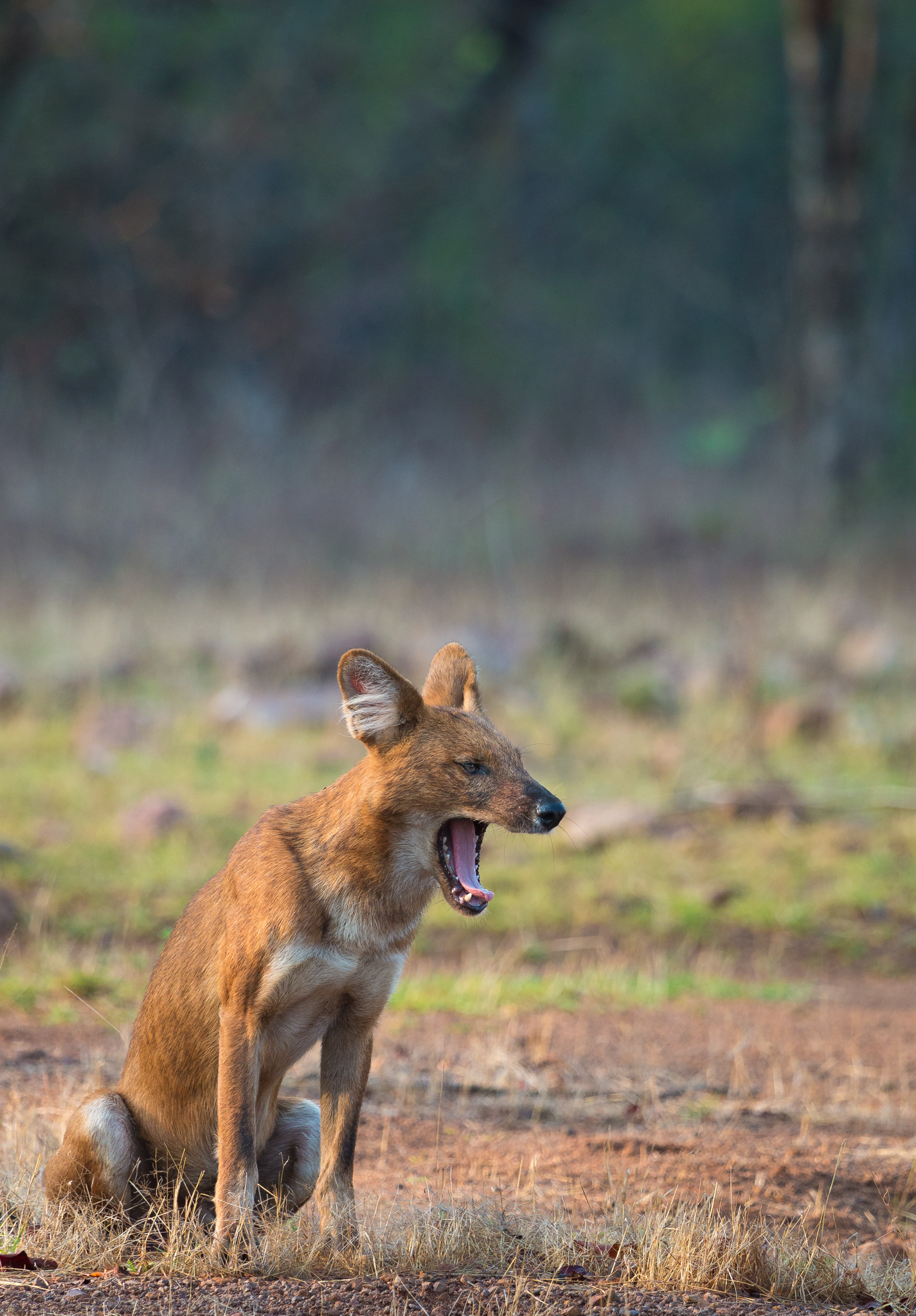 Alpha male at Tadoba Andhari Tiger Project